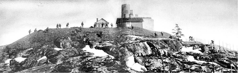 1918 Finnish Civil War, Battle of Helsinki: German Baltic Sea Division taking the Meteorological Institute weather station on the Ilmala Hills.